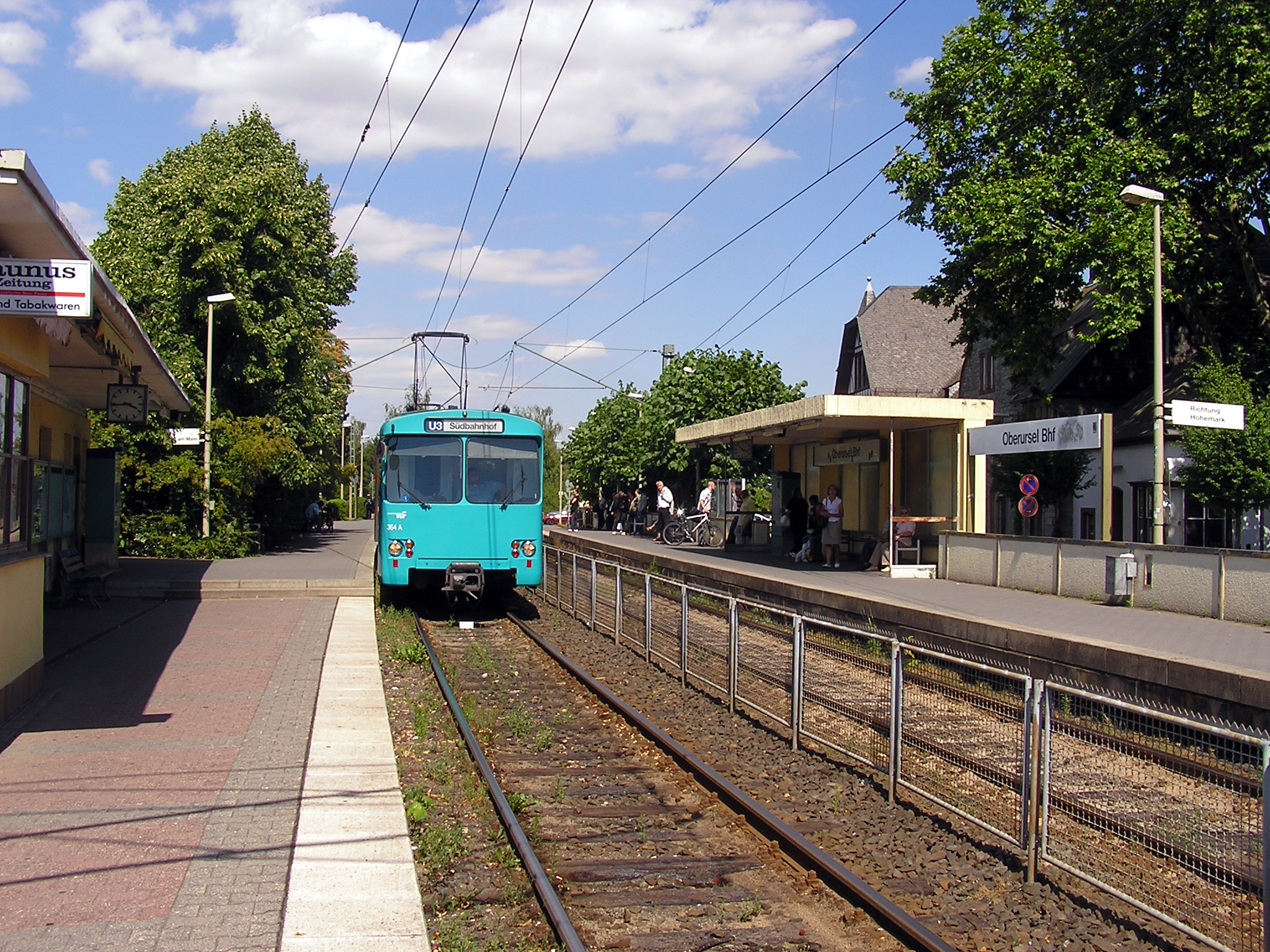 U-Bahn station Oberursel Bhf (line U3)